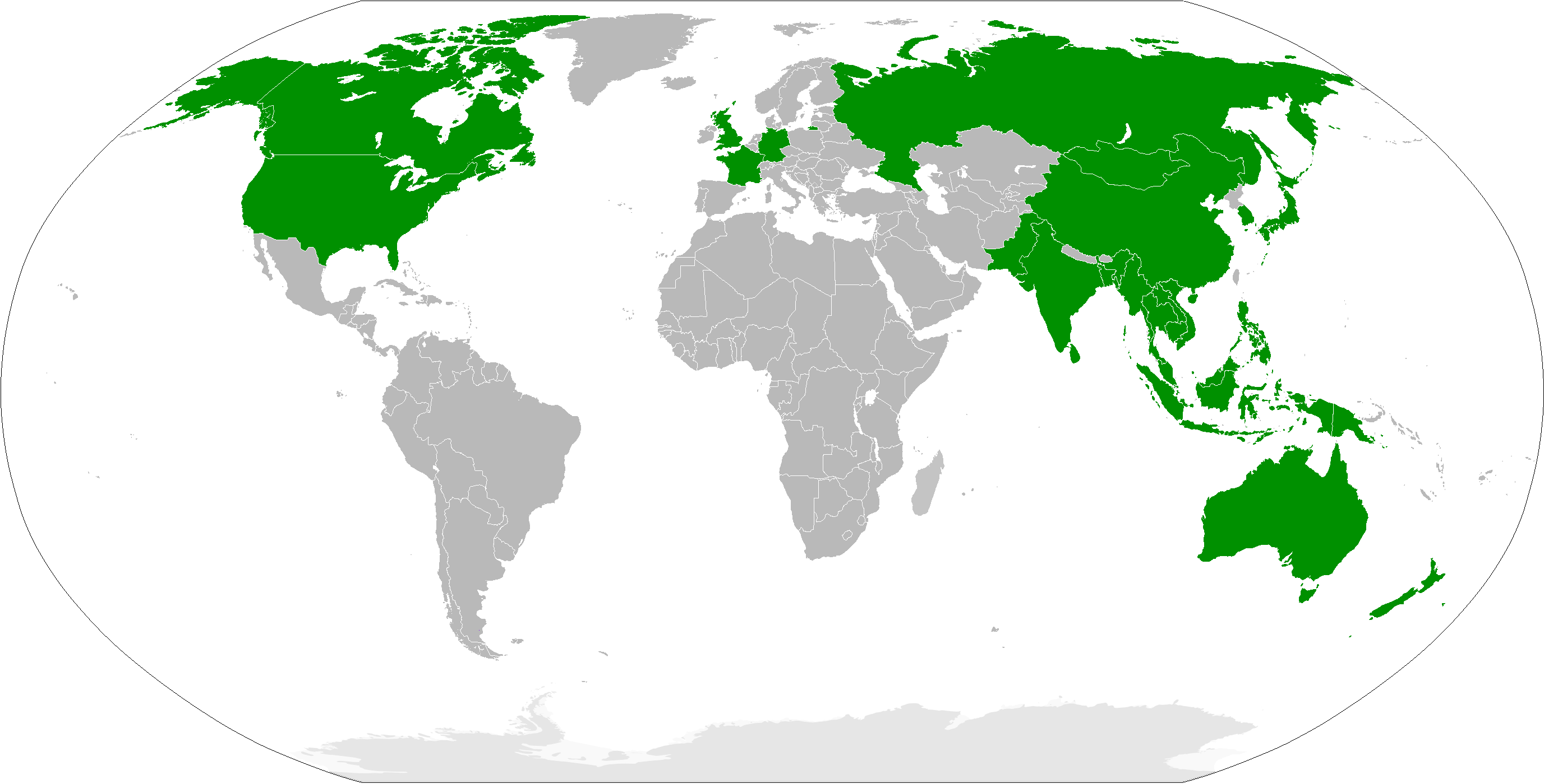 Shangri-La Dialogue member countries.